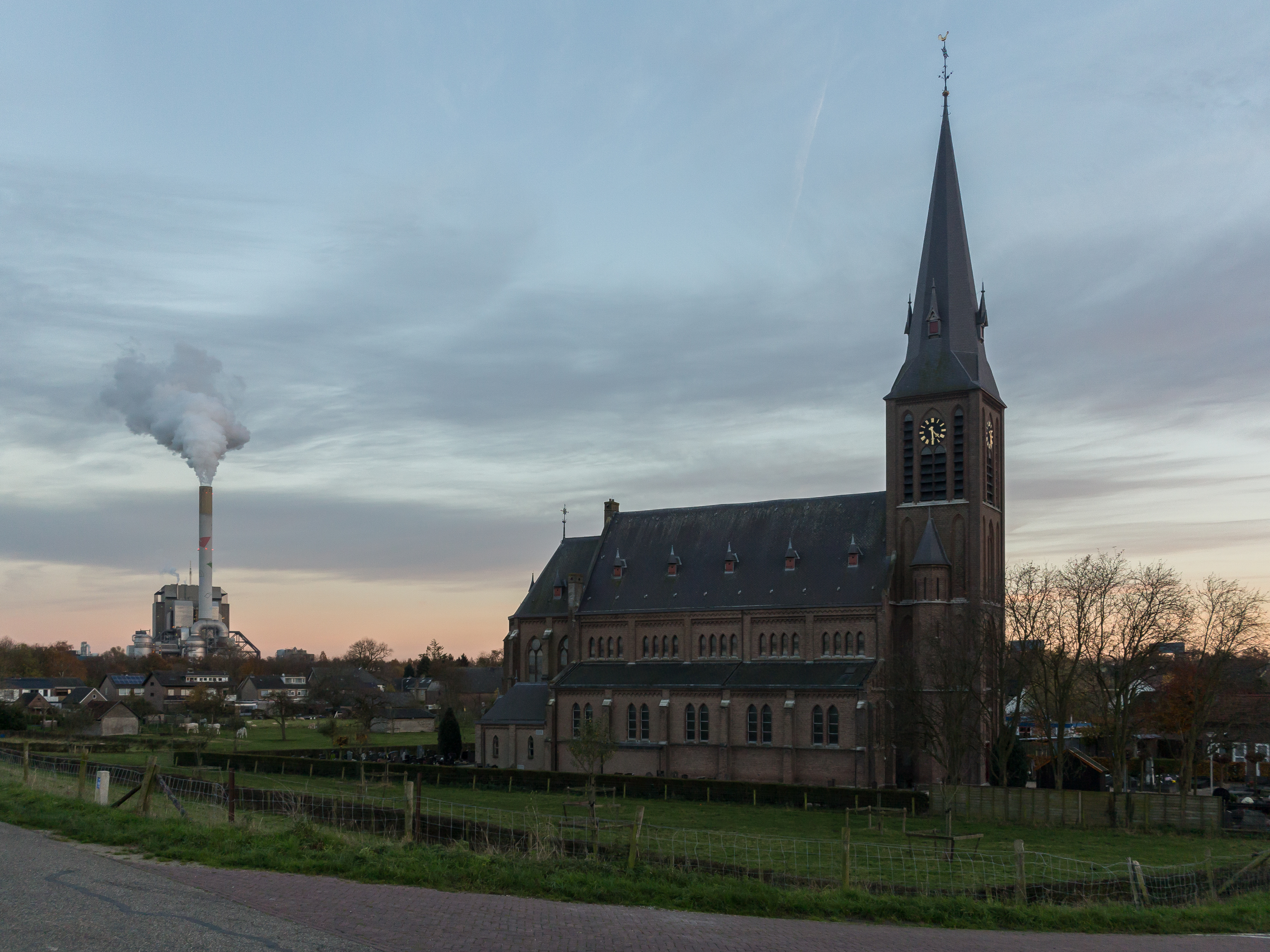 Weurt church: de Sint-Andreaskerk